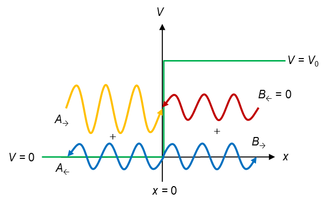 1d step potential in quantum mechanics.